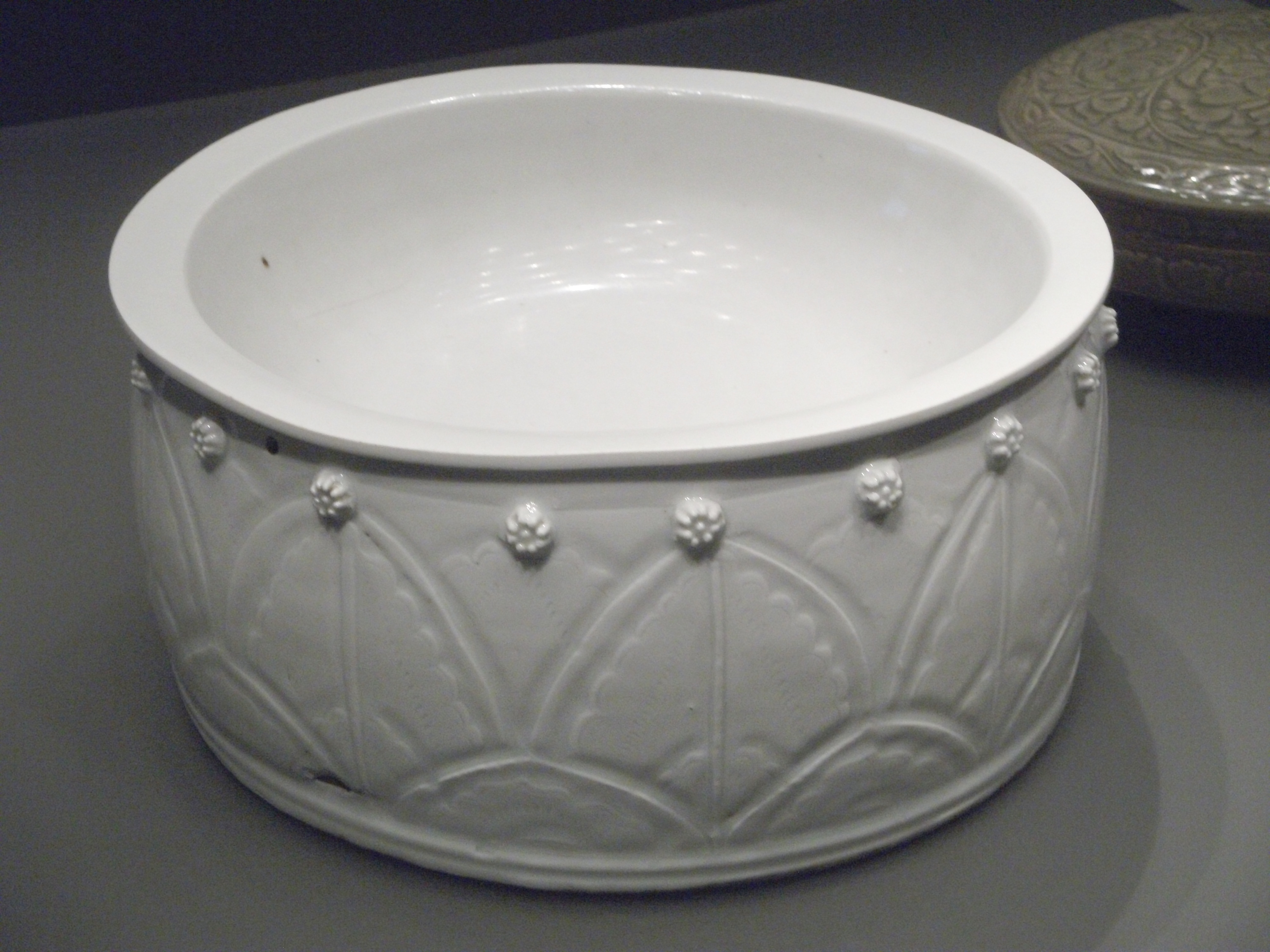 Xing ware 邢窯, Tang dynasty, ca. 800-907. Neiqiu or Lincheng county in Hebei province. Percival David Collection, Room 95, British Museum